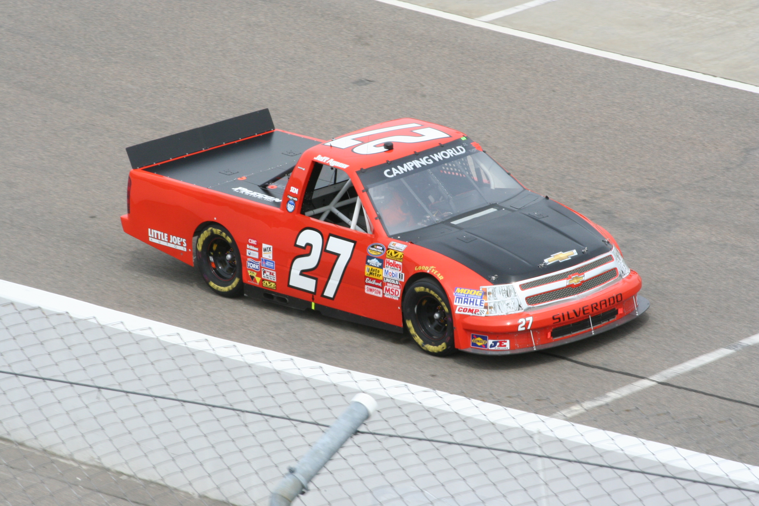 Jeff Agnew drives the Hillman Racing No. 27 Chevrolet on pit road during the North Carolina Education Lottery 200 at Rockingham Speedway, Rockingham, NC, April 14, 2013